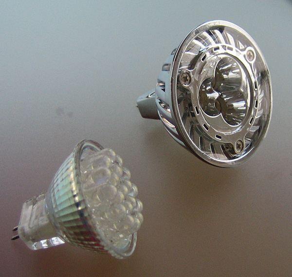 Pictured, from left to right: An MR11 employing 19 LEDs that protrude from the surface, an MR16 that produces 70 lm/W, with individual reflectors for each of its 3 LEDs.